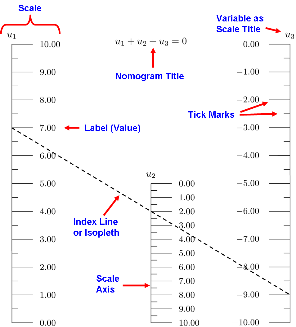 Components of a typical nomogram